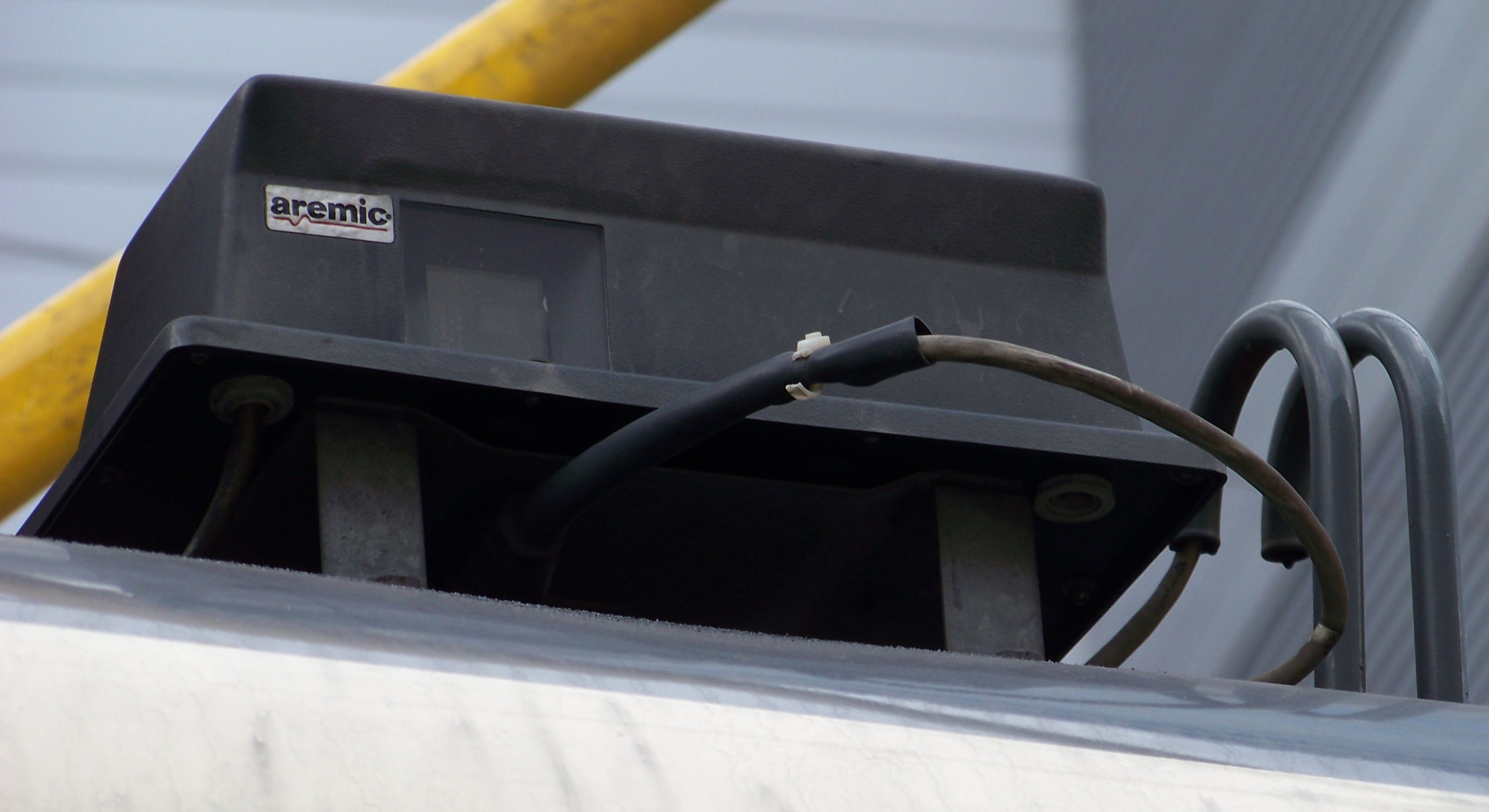 Receiver of the localization infra-signal of DORIS system at the roof of a tram (Prague-Smíchov, the Czech Republic. Nádražní street, tram stop Anděl). - OpenStreetMap(Info)